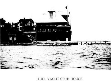 Hull Yacht Club House c 1894